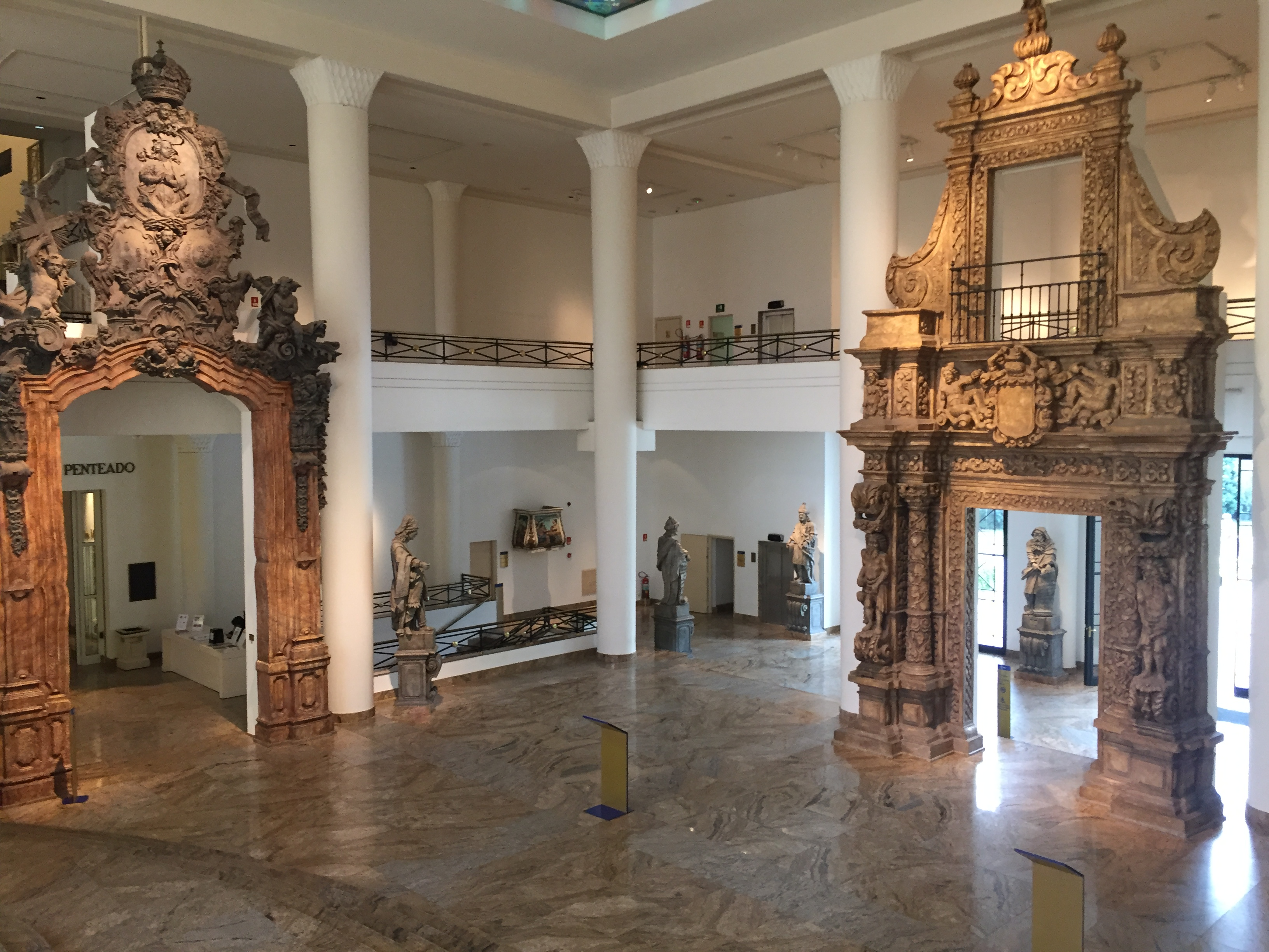 Foto interna do museu